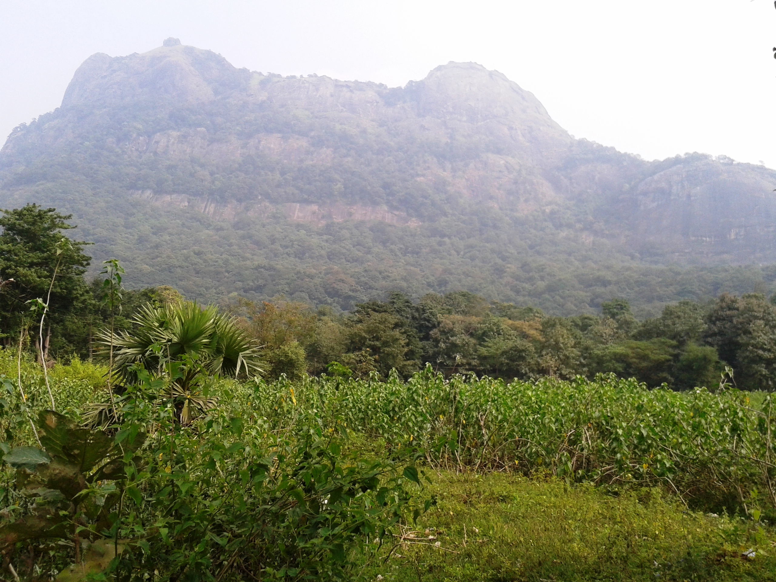 Anaiakkal Hills, Malampuzha, Palakkad, In